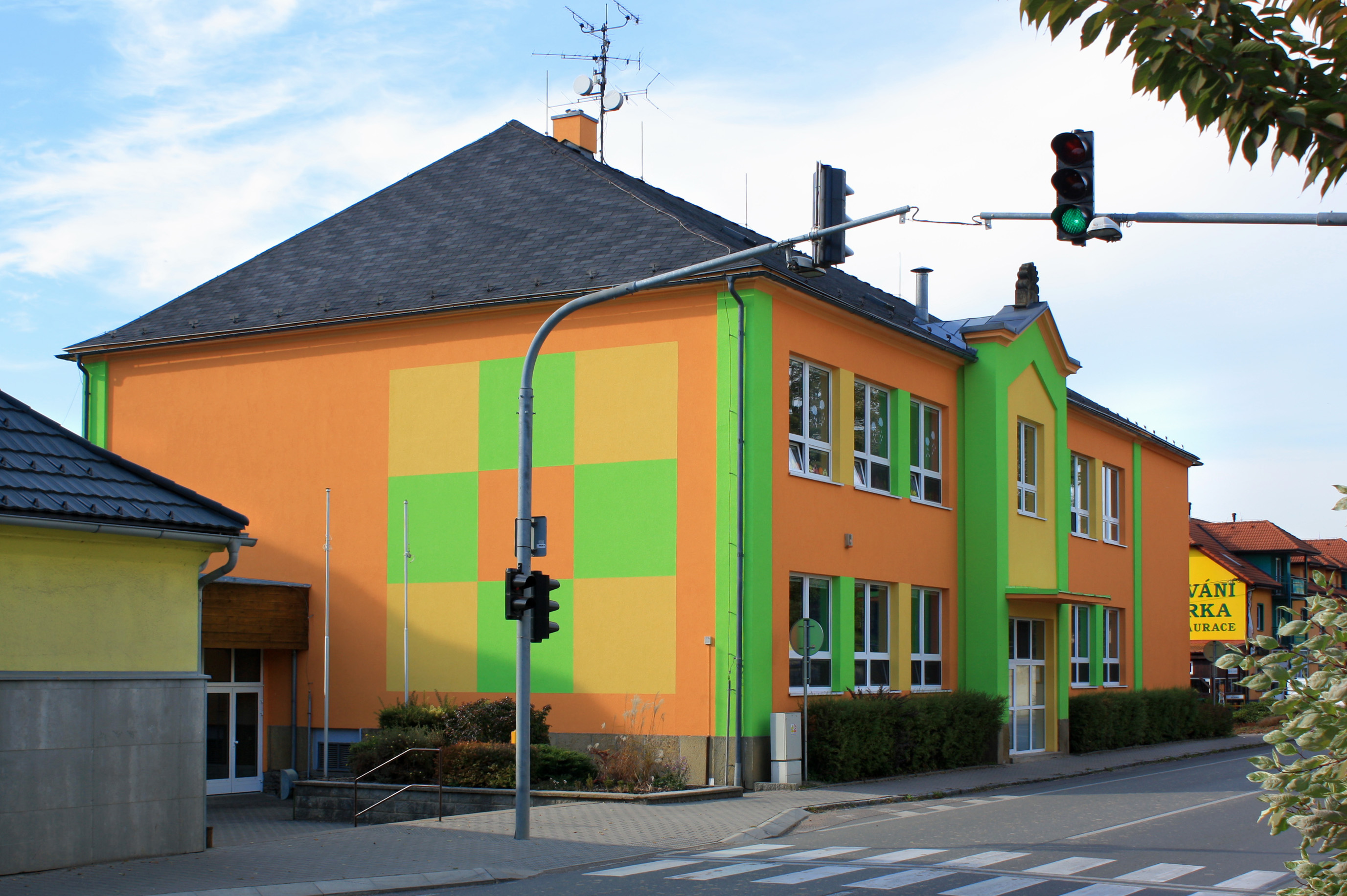 New school in Dolní Libchavy, part of Libchavy village, Czech Republic